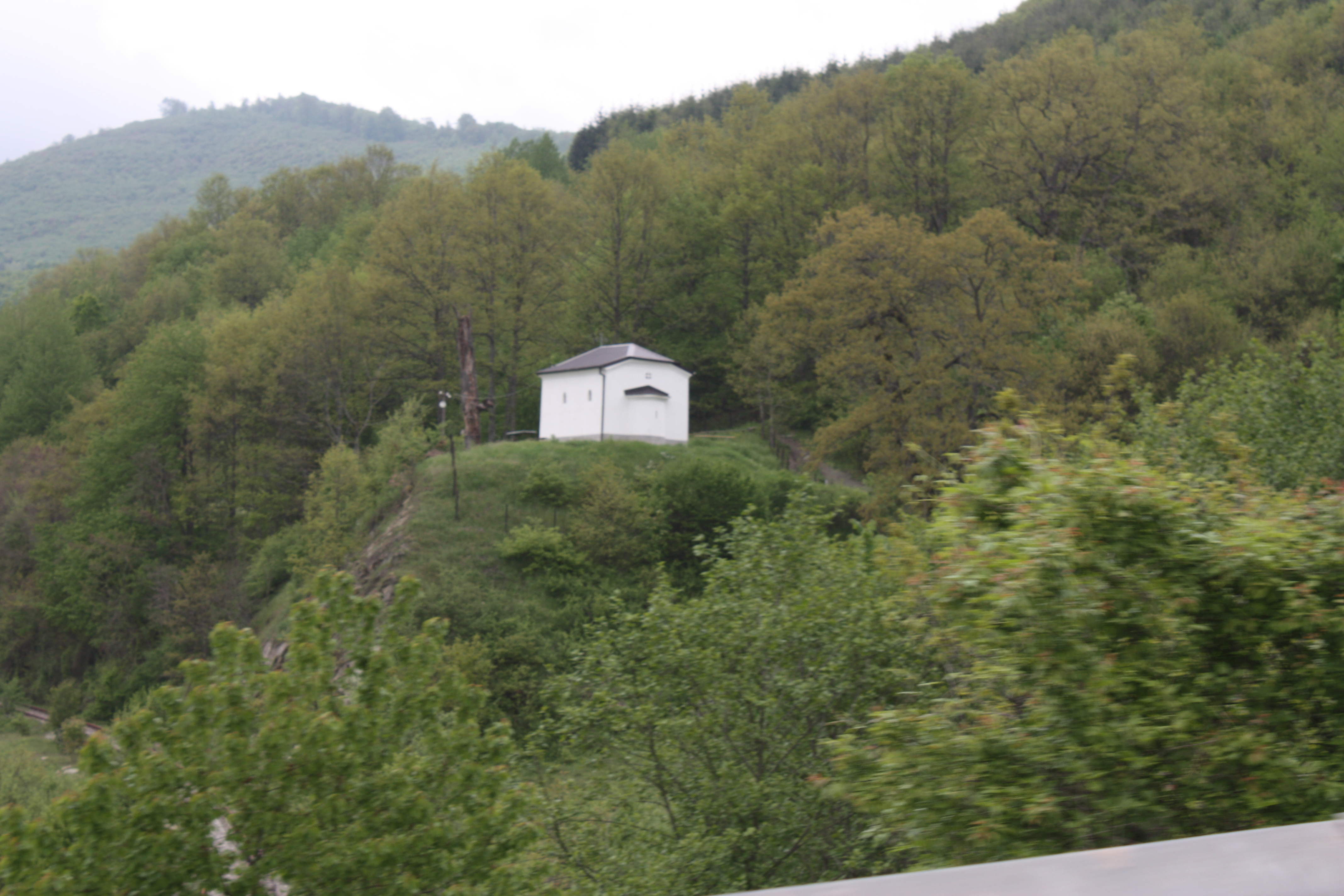 St.Petka church in Tajmište, Macedonia